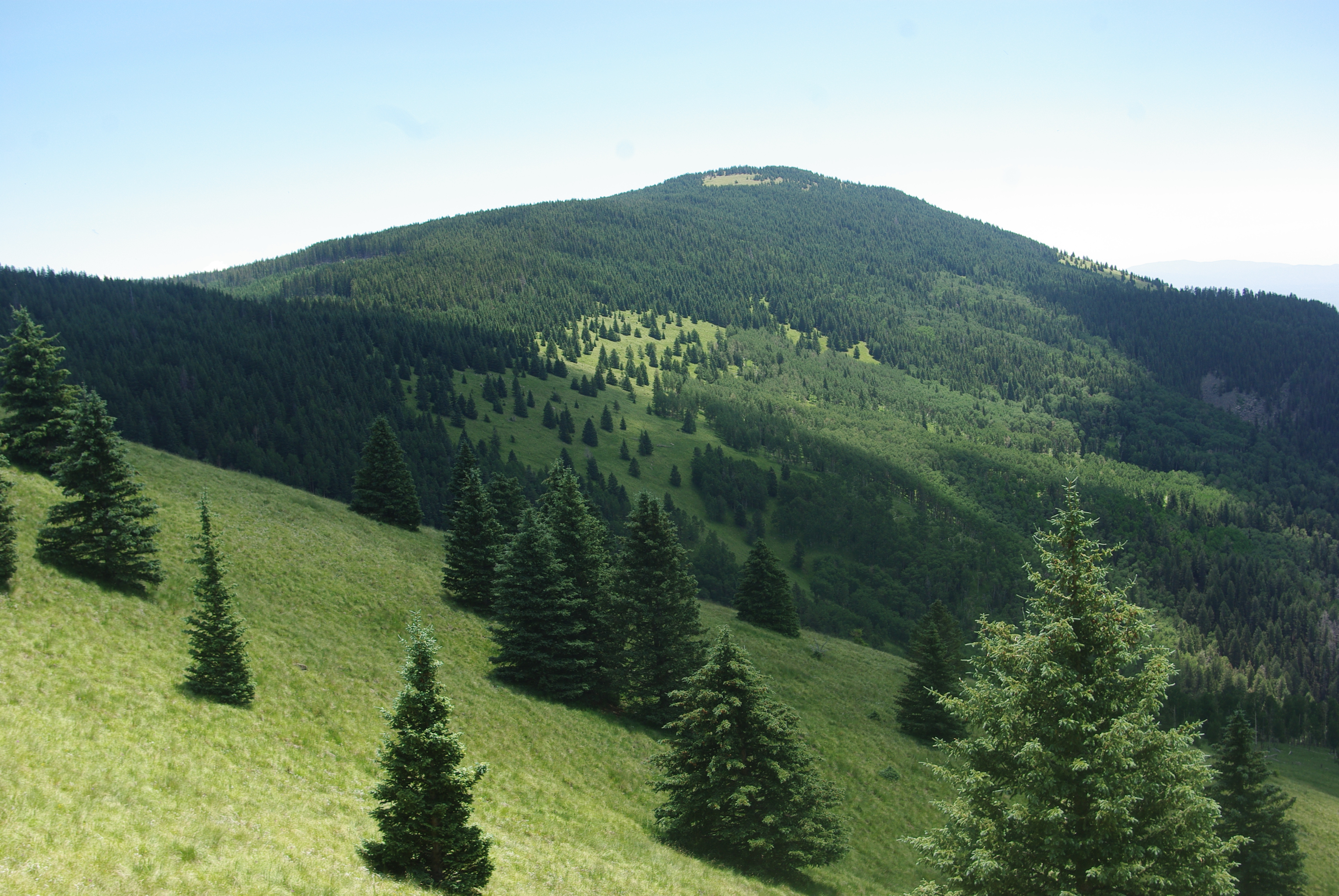 Chicoma Mountain, Los Alamos County, New Mexico, seen from the north (not far from 31 Mile Rd.)